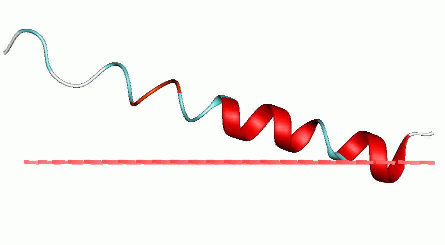 Protein image from OPM database